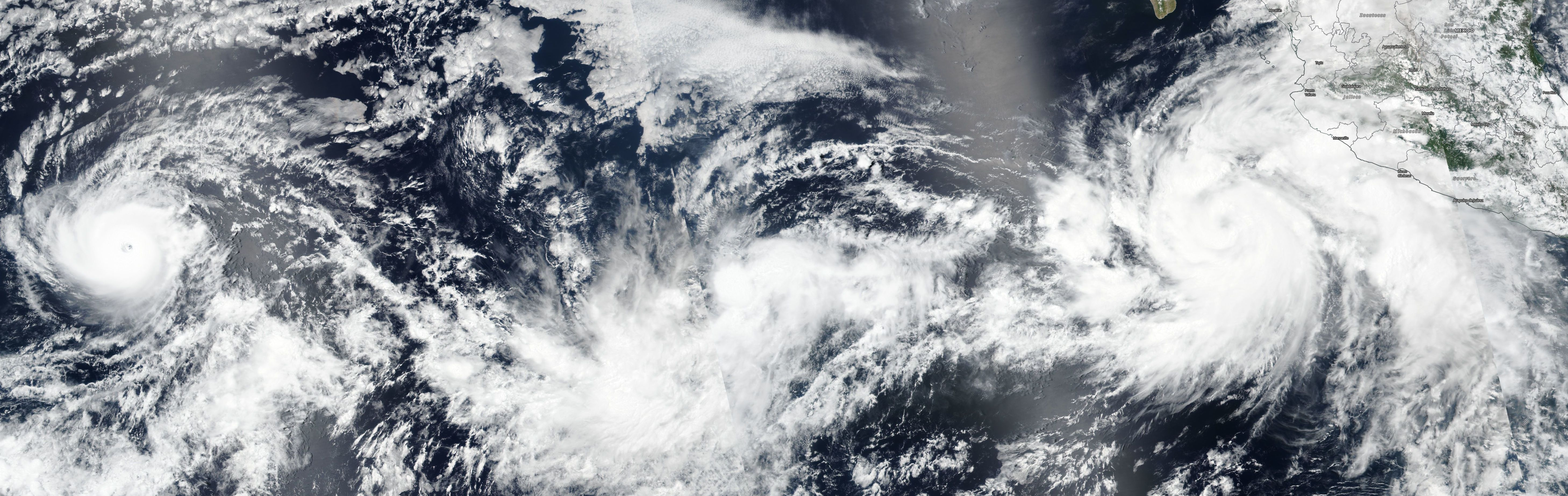 Four Tropical Cyclones in the Pacific on August 7; Hector (left), Kristy (middle), John (right), Ileana (merging with John)